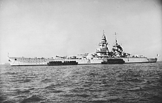 French warships refitted in U.S. ports to resume war on Axis. The 35,000-ton Richelieu, largest battleship of the French Navy, arrives at an East coast port of the United States after crossing the Atlantic from Dakar to be fitted out to resume the fight against the Axis. Three more French warships are in American ports for new equipment.